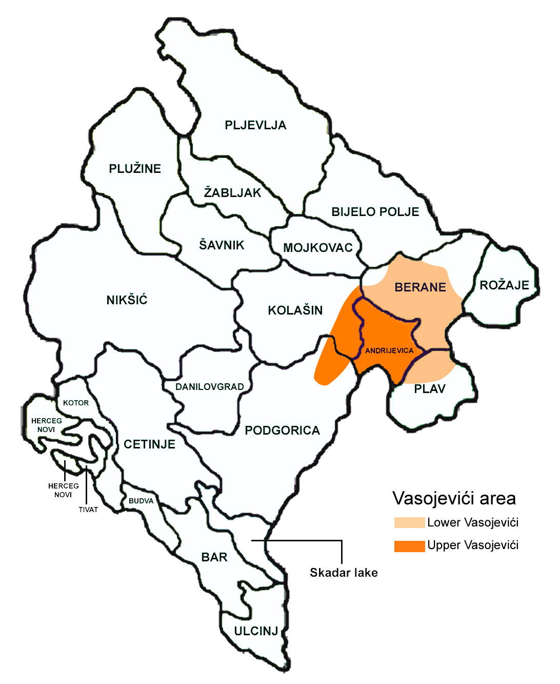 The area inhabited by the Vasojevići clan in Montenegro